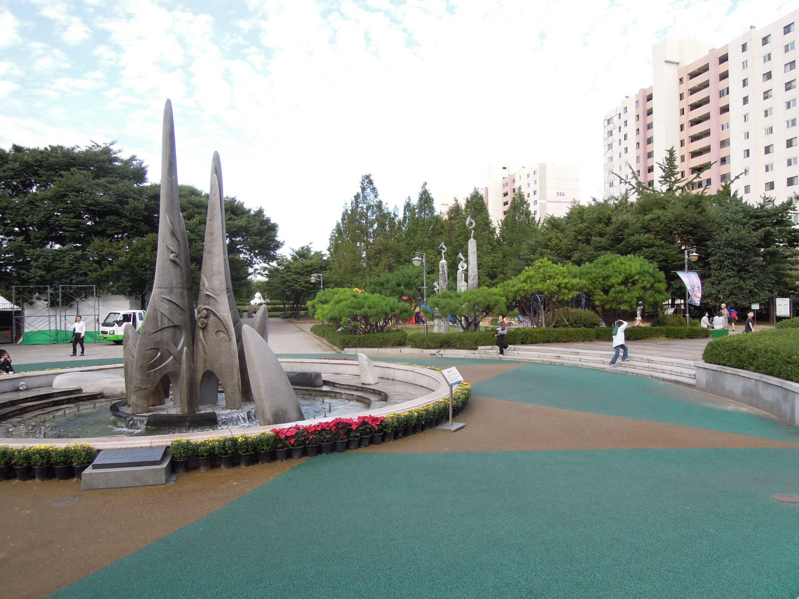 Gwacheon, the Jeongja-Park in the City Center